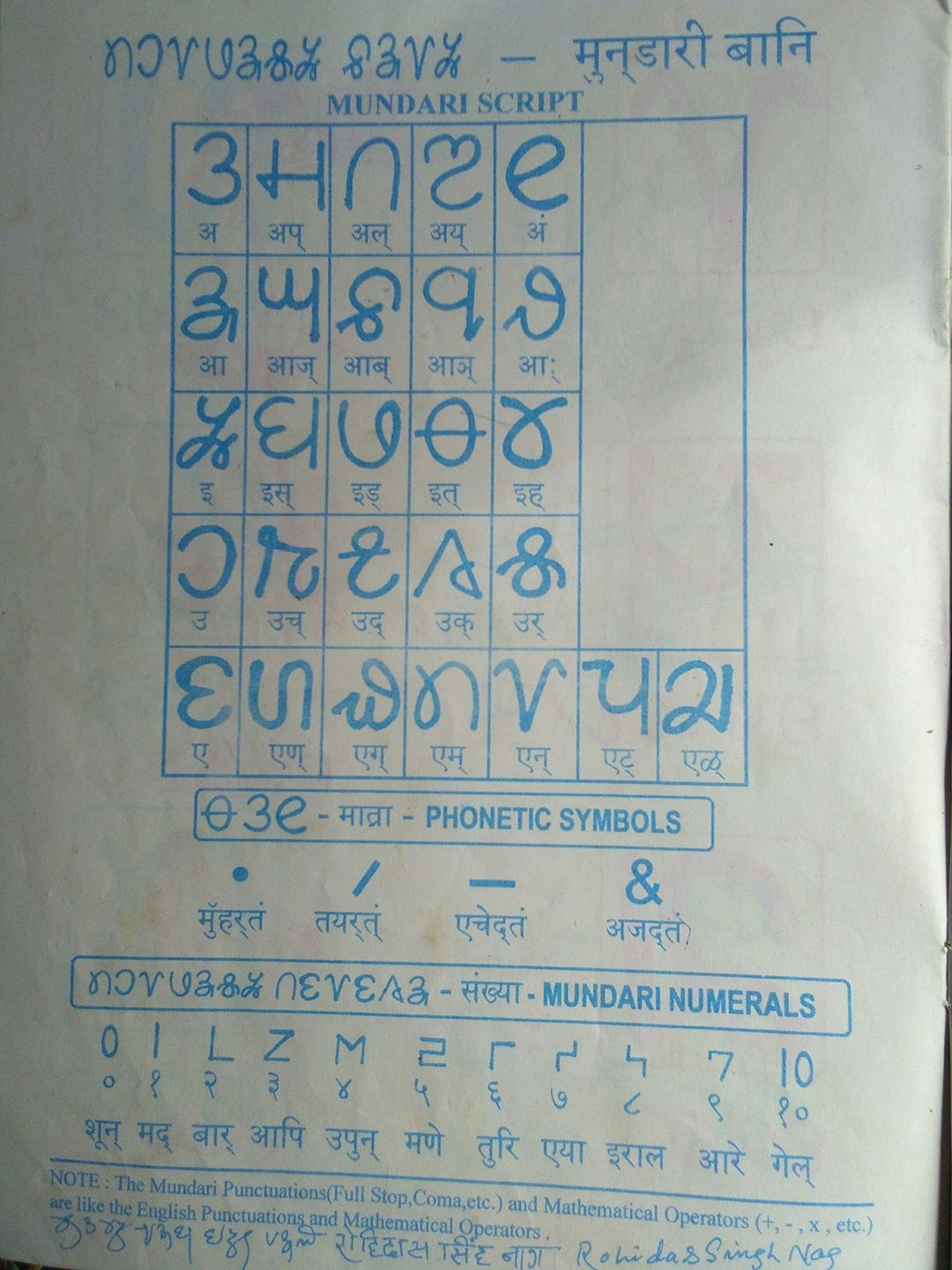 This is Mundari Bani, the script specifically used to write Mundari language, an Austro-Asiatic language in India